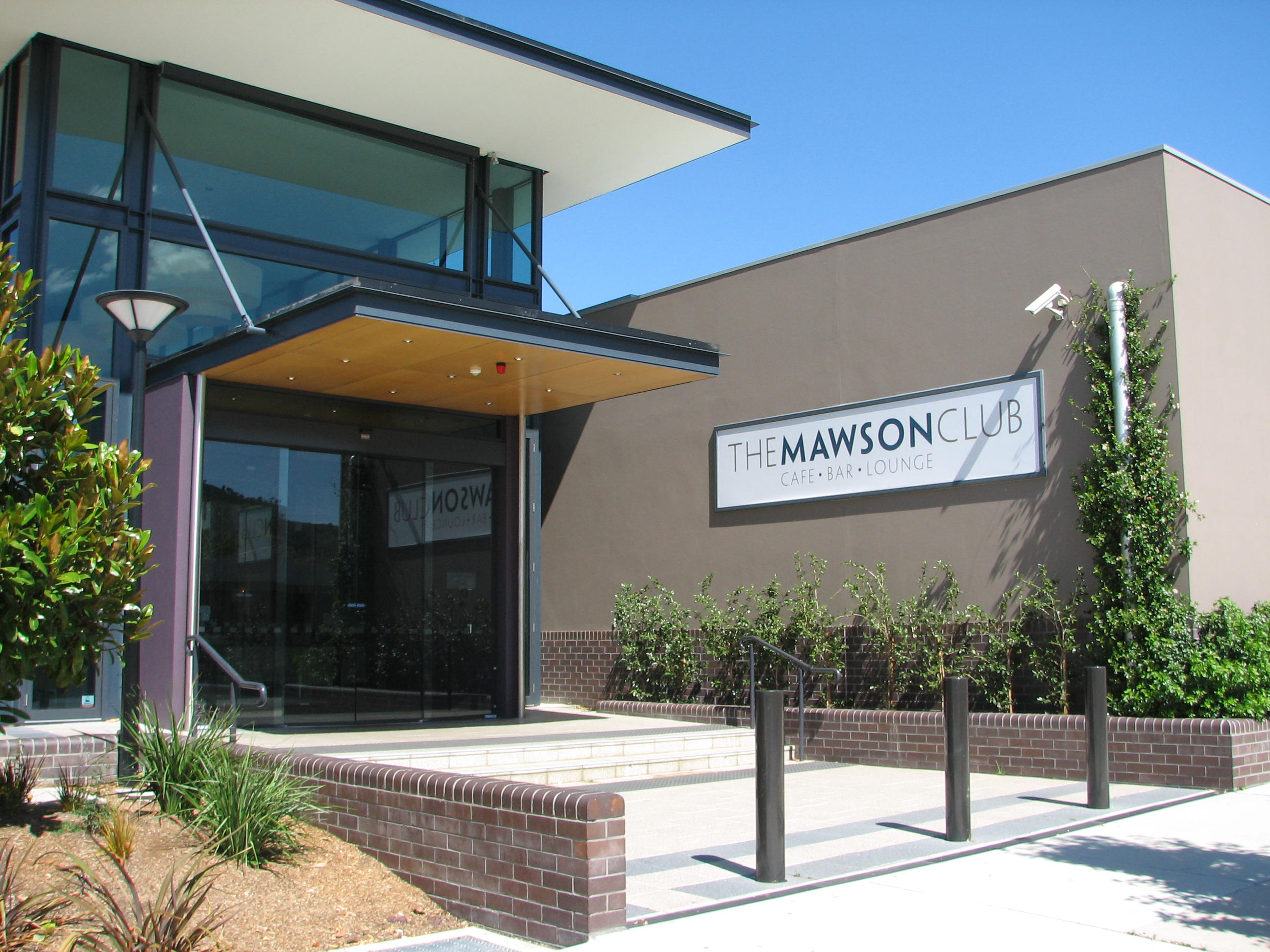 The Mawson Club in Mawson, Australian Capital Territory. Taken by me - Tim Malone - on 20th January 2007.